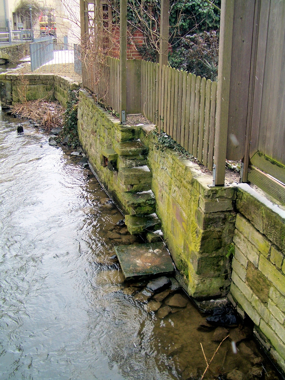 Wolfenbüttel Waterways Großer Kanal